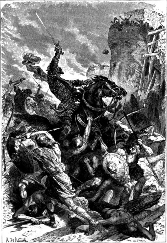 Count Eudes re-entering Paris through the Besiegers